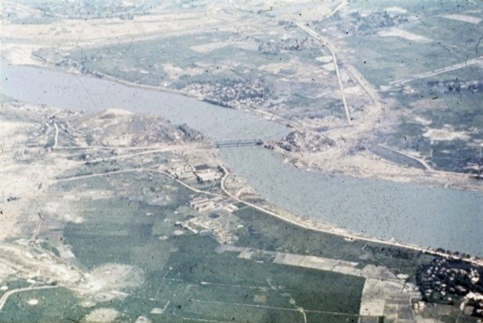 The Thanh Hoa railroad bridge in North Vietnam photographed from a U.S. Navy McDonnell F-4B Phantom II from Fighter Squadron VF-161 Chargers. VF-161 was assigned to Attack Carrier Air Wing 5 (CVW-5) aboard the aircraft carrier USS Midway (CVA-41) for a deployment to Vietnam from 10 April 1972 to 8 March 1973.